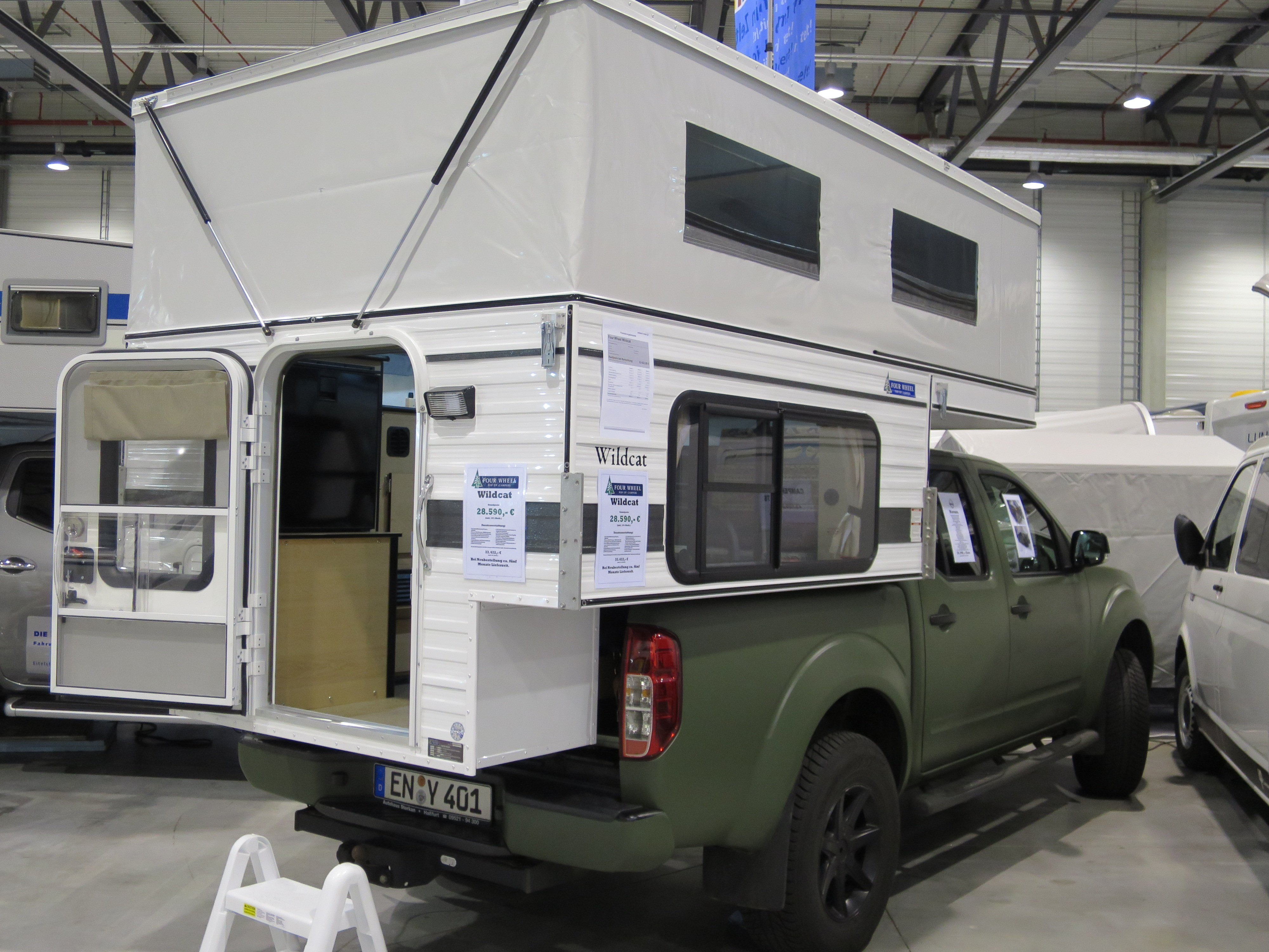 Four Wheel Camper of California, USA; Wildcat(model) pop-up camper.